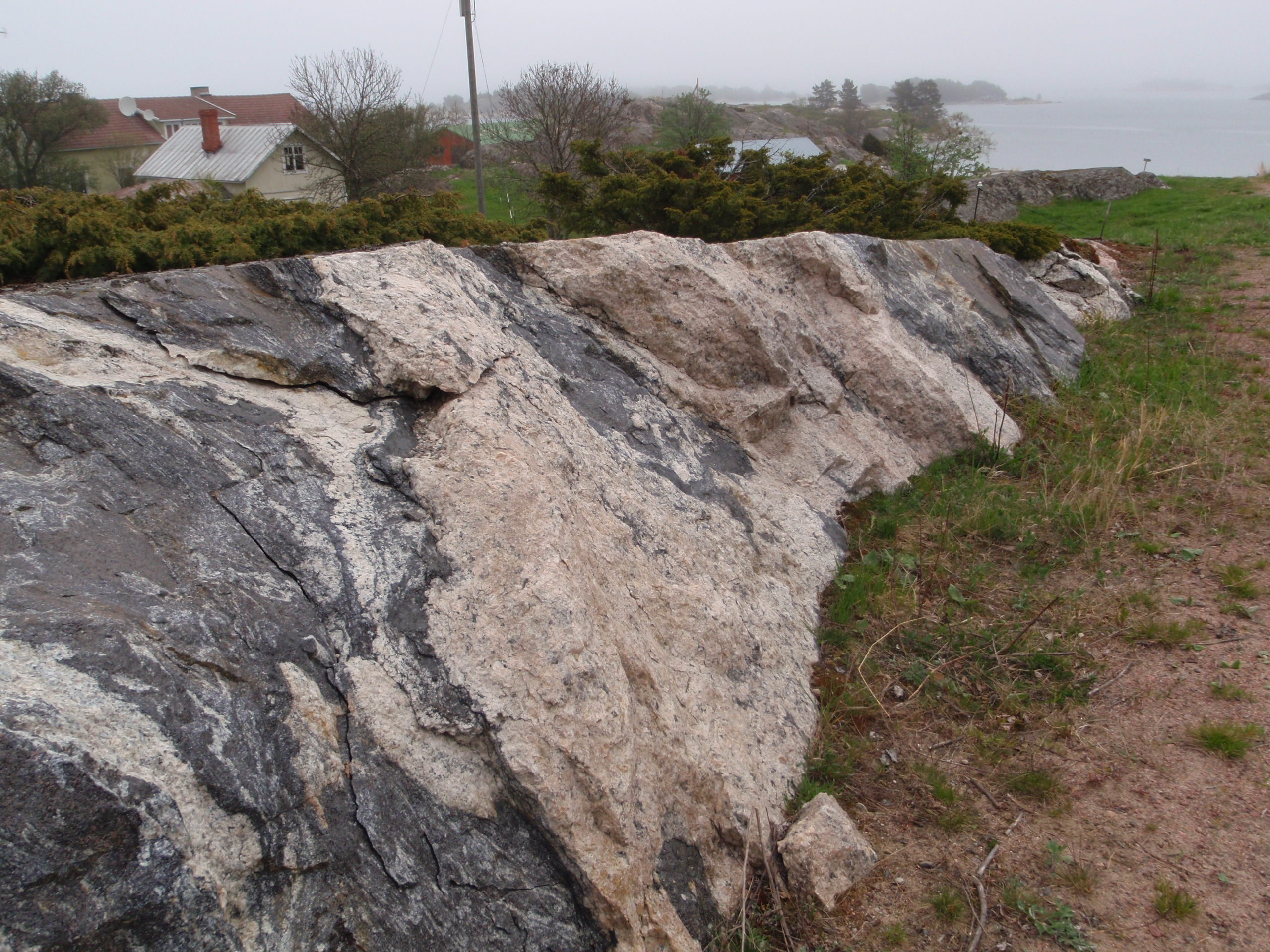 Migmatitic rock outcrop in the island of Berghamn in municipality of Länsi-Turunmaa, Finland. The lighter parts of the outcrop are granite and the darker parts are mica schist.